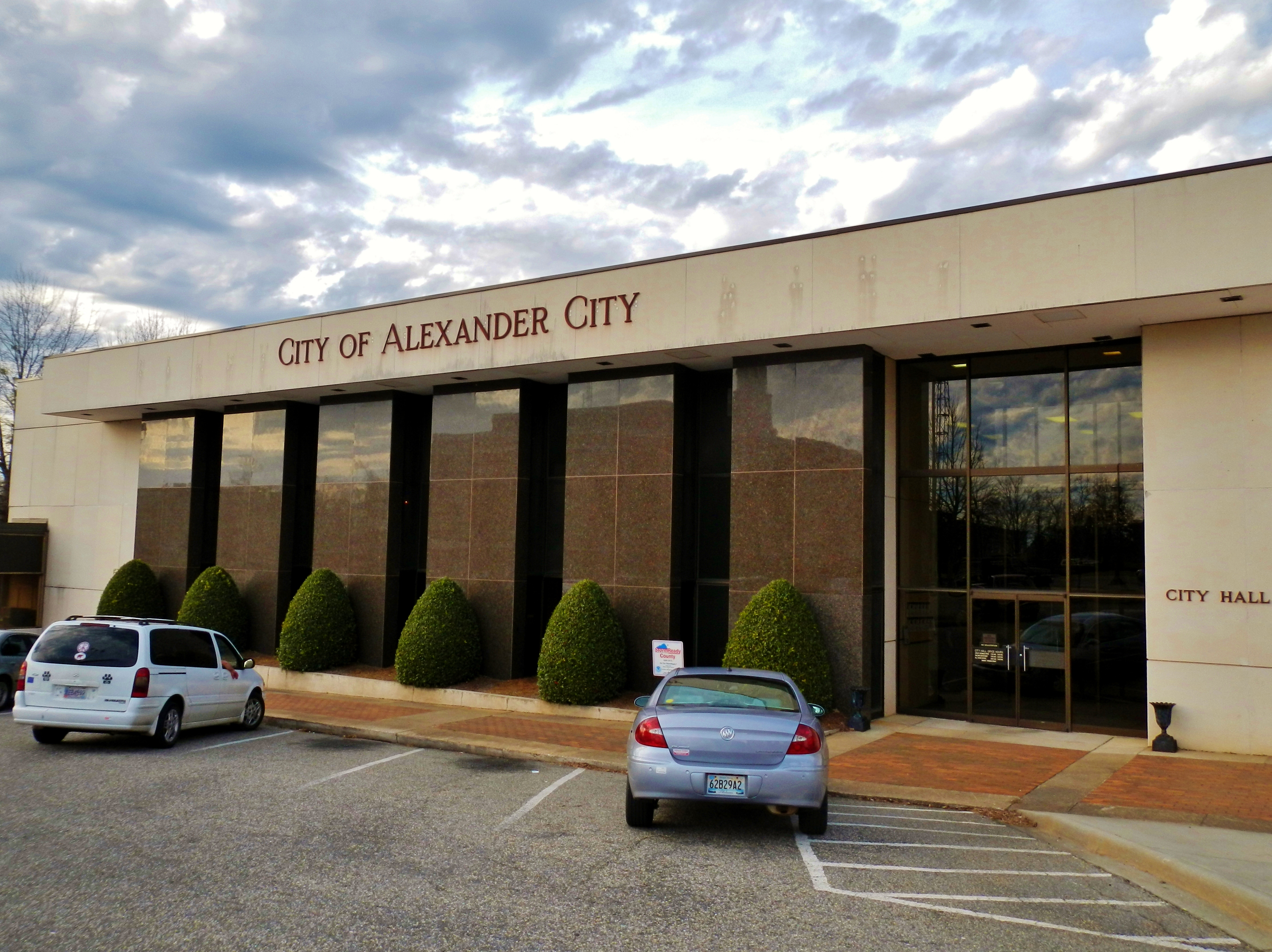 This is a photograph of the City Hall in Alexander City, Alabama.